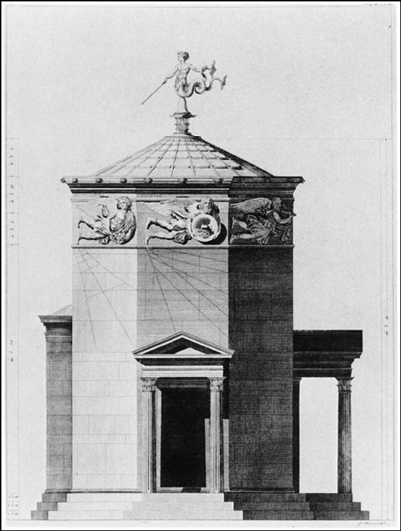 Source: JSTOR copy of Noble & Price's "The Water Clock in the Tower of the Winds", image originally from Stuart & Revetts's "The Antiquities of Athens (Vol.I)", 1762.